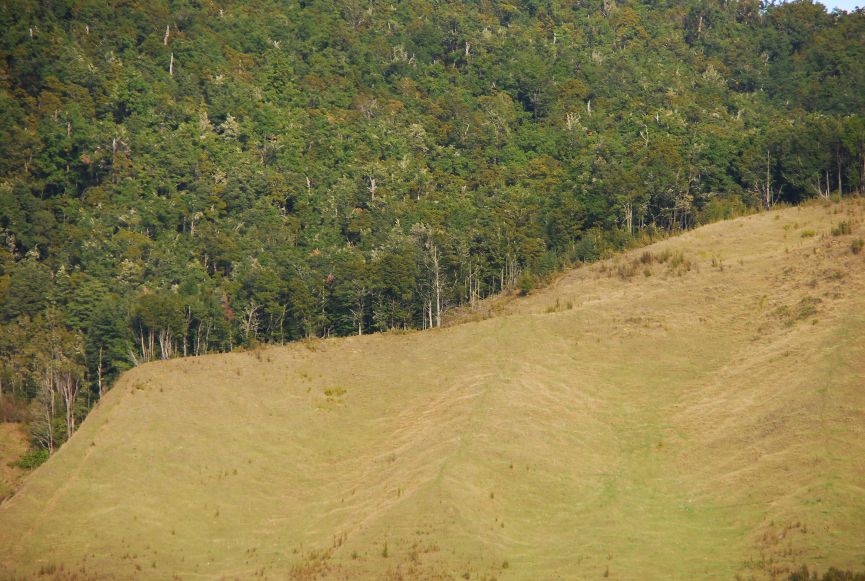 Deforestation in Newzealand (South Island: Tasman, Westcoast)